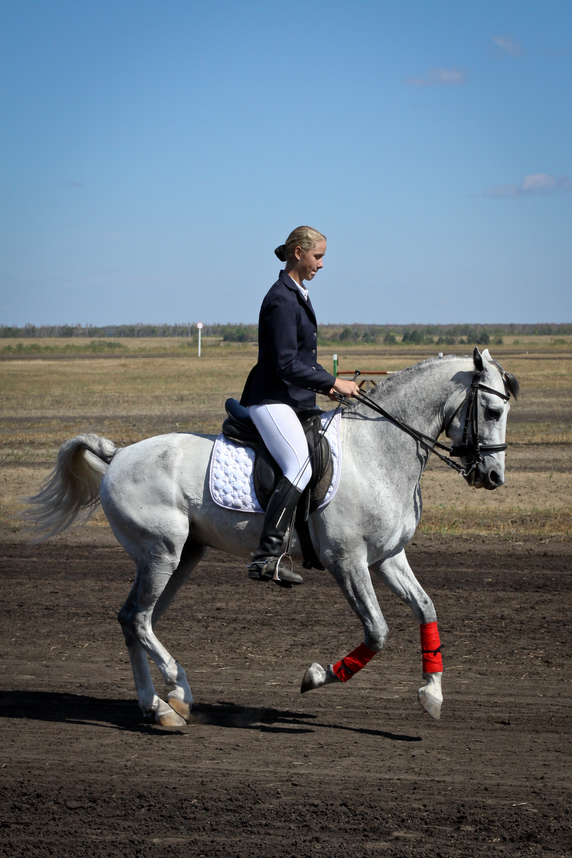 The Russian Trotter or Métis Trotter was developed in Russia to create a horse with a faster trotting speed than the older Russian Orlov Trotter. 156 Standardbred stallions and 220 mares were imported from the United States between the years of 1890 and 1914. Being the fastest trotter in the world, the Standardbred was crossed with the Orlov Trotter, producing at first animals who were faster but of lower quality. Further breeding produced a larger trotter of better quality. Further infusions of Standardbred and Orlov Trotter were added to the best offspring, and periodic infusions of both breeds are still added to this day.